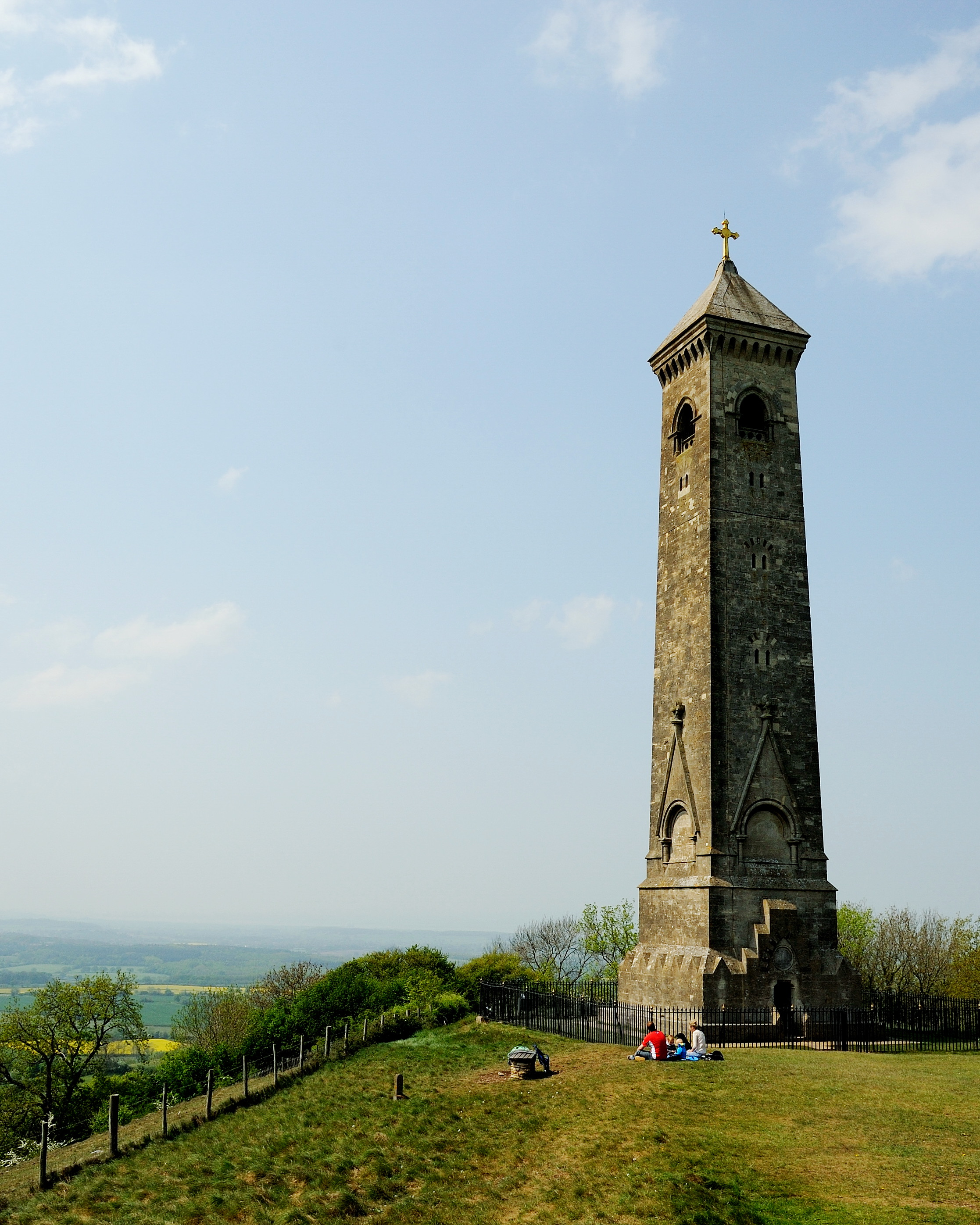 Tyndale Monument near North Nibley. Willaim Tyndale was an early translator of the New Testament into a language the common people could read.